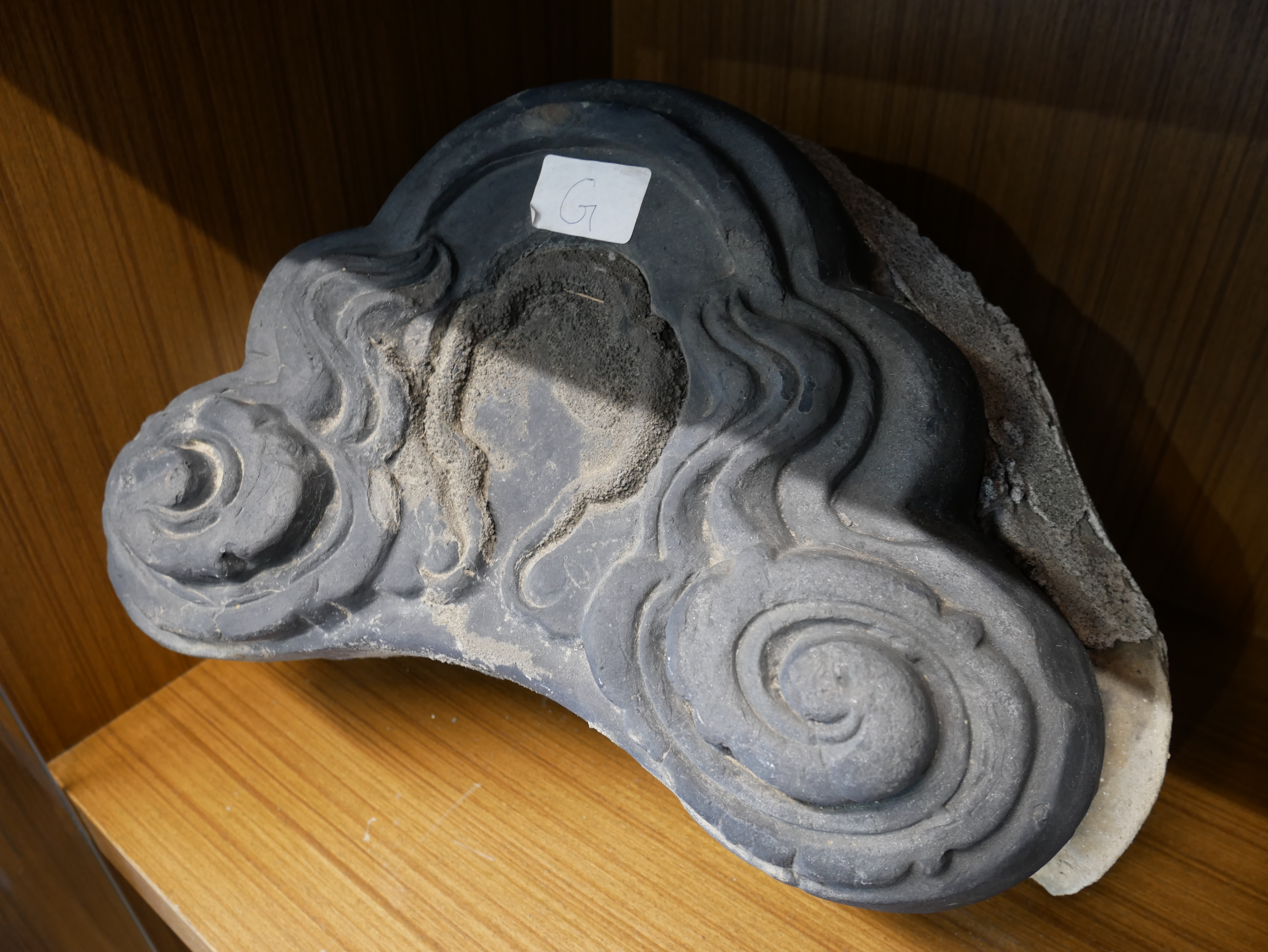 新竹州桃園郡役所警察課官舍鬼瓦，桃園市桃園區市中次分區文化里